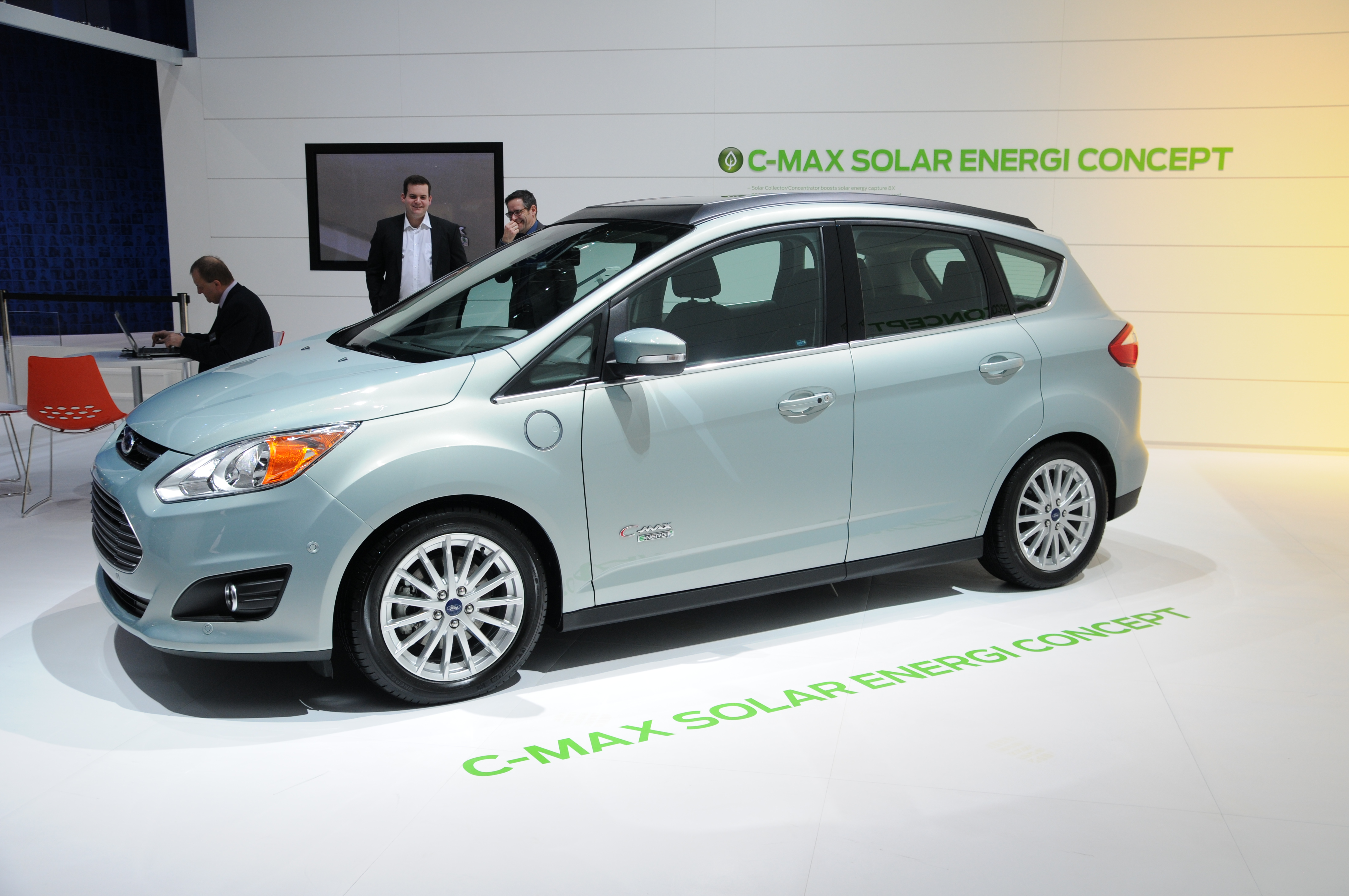 Ford C-Max Solar Energi concept at Geneva Motor Show 2014 (photo taken on the first press day)